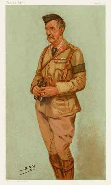 Men of the Day No.0822: Caricature of Gen the Hon Neville Gerald Lyttelton. Caption reads: "4th Division"